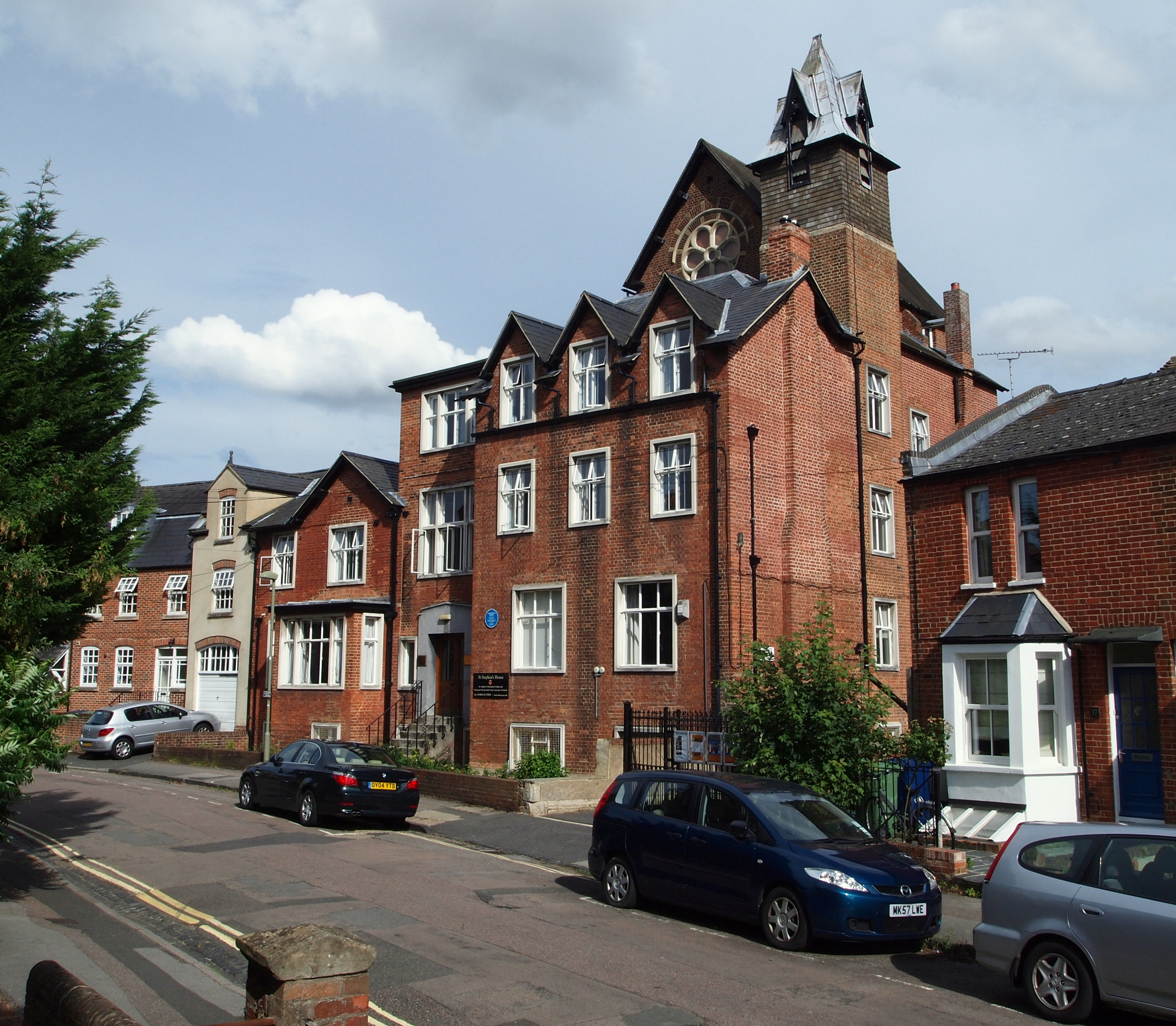 Iffley Road Vicinity, Oxford